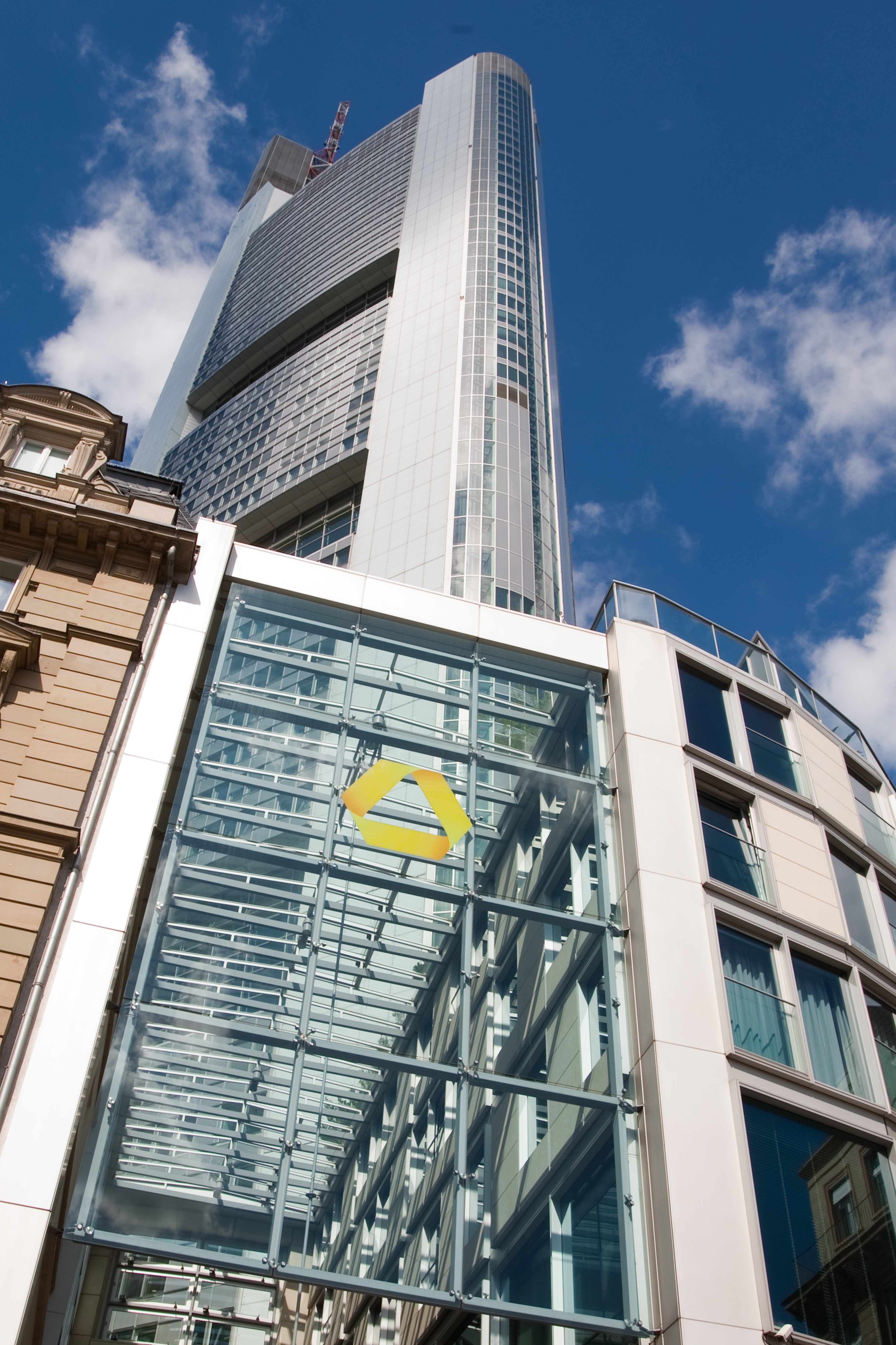 Commerzbank Tower, Kaiserplatz, City of Frankfurt, Germany